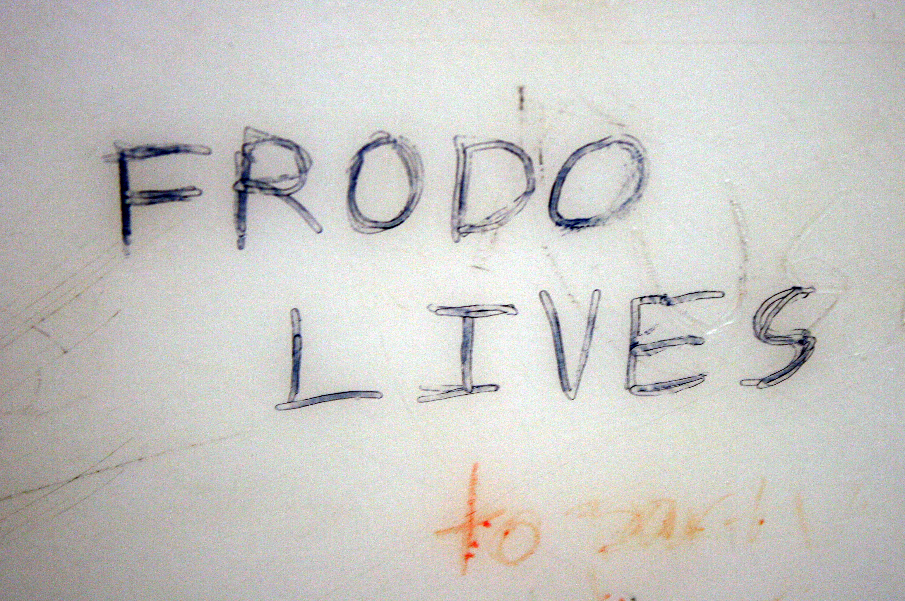 "Frodo Lives!" graffiti in a public bathroom.